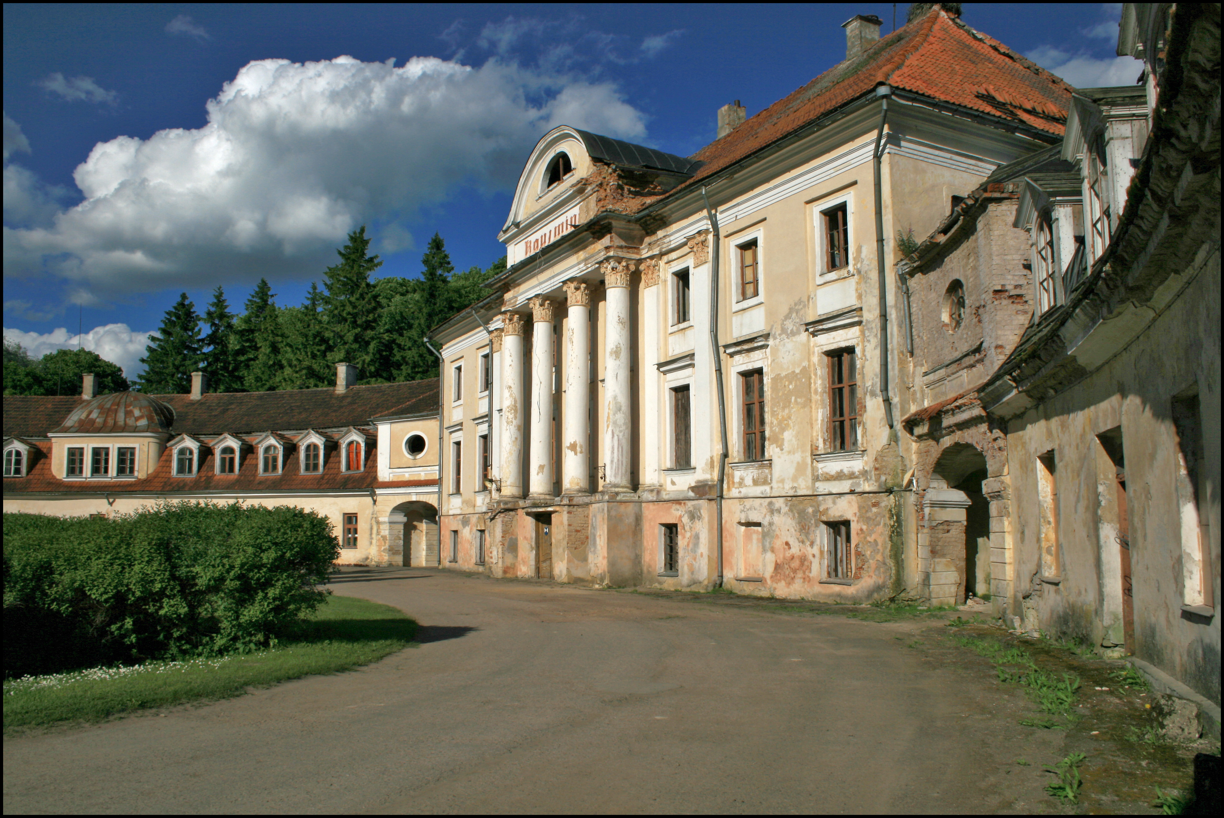 Kaucminde Manor